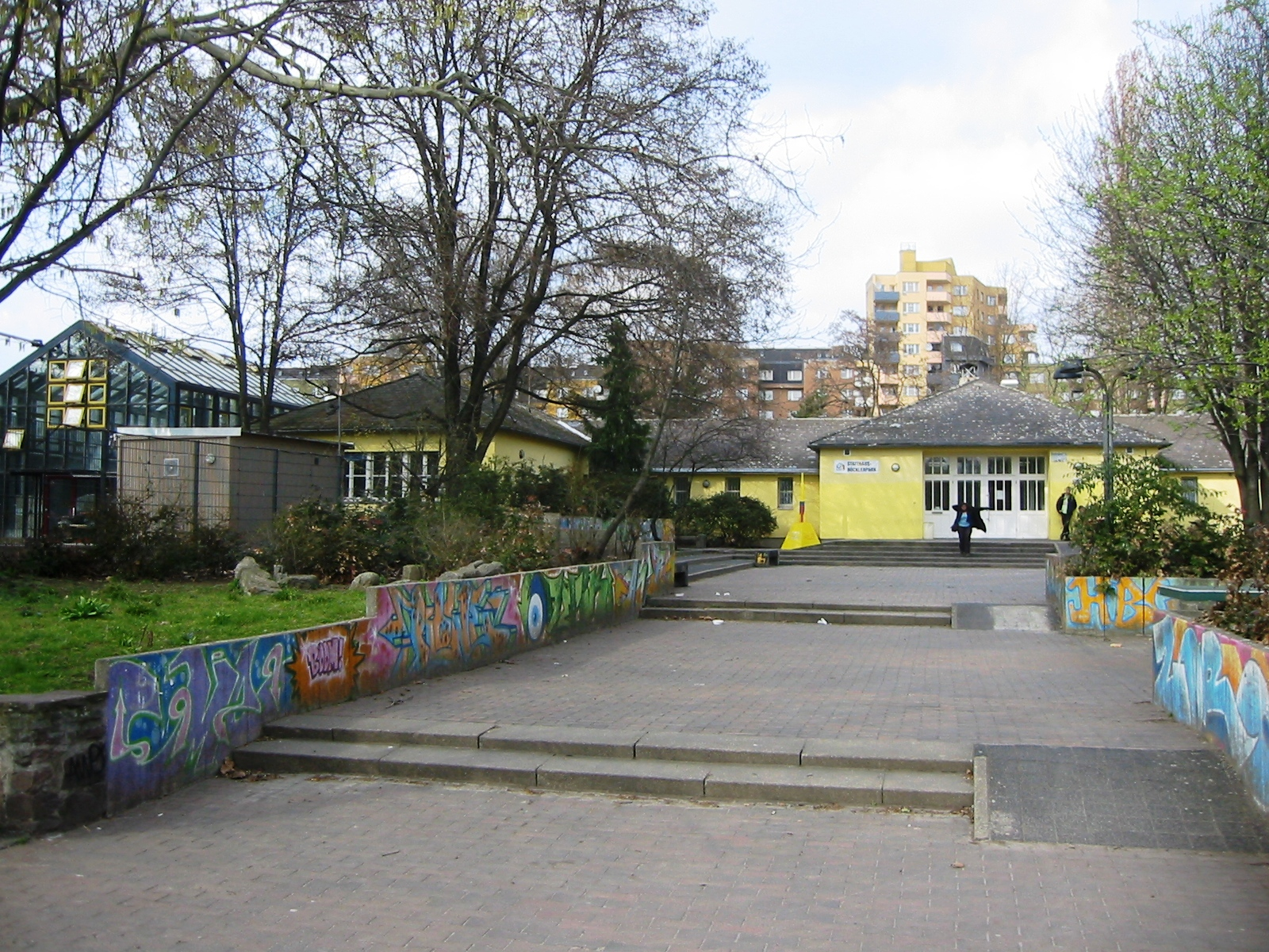 Recreational establishment "Statthaus" for children, adolescents and adults in Böcklerpark in Berlin-Kreuzberg (Germany)